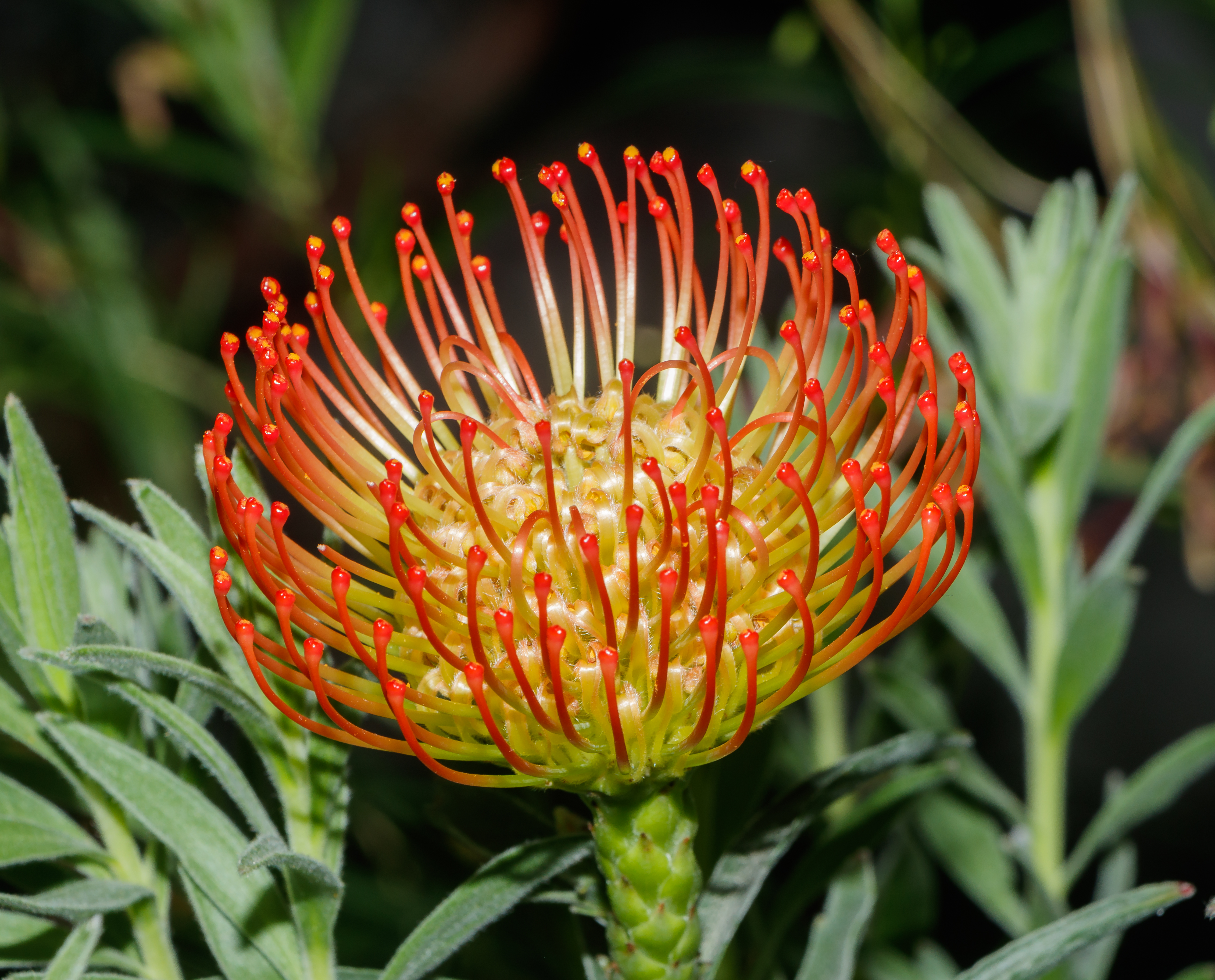 Leucospermum lineare × cordifolium, flower; Wilhelma, Stuttgart, Germany.